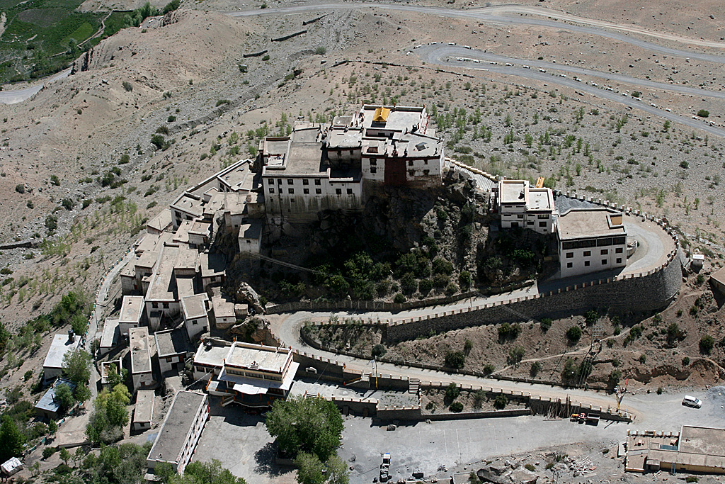 A birds eye view of Kye monastery in Spiti valley. It is one of the most famous monasteries in Lahaul and Spiti.